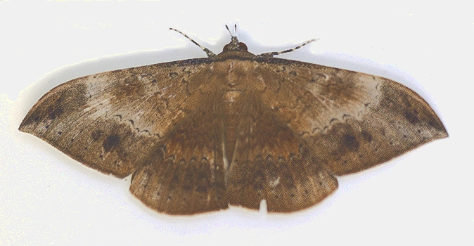 Hemeroblemma opigena (Female) (subfamily Calpinae). Naples, Collier Co., Florida.